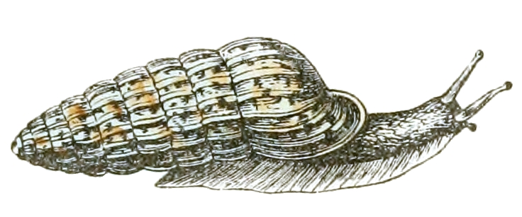 drawing of Cerion chrysalis. In the source book named as Strophia chrysalis Fer. from Cuba.